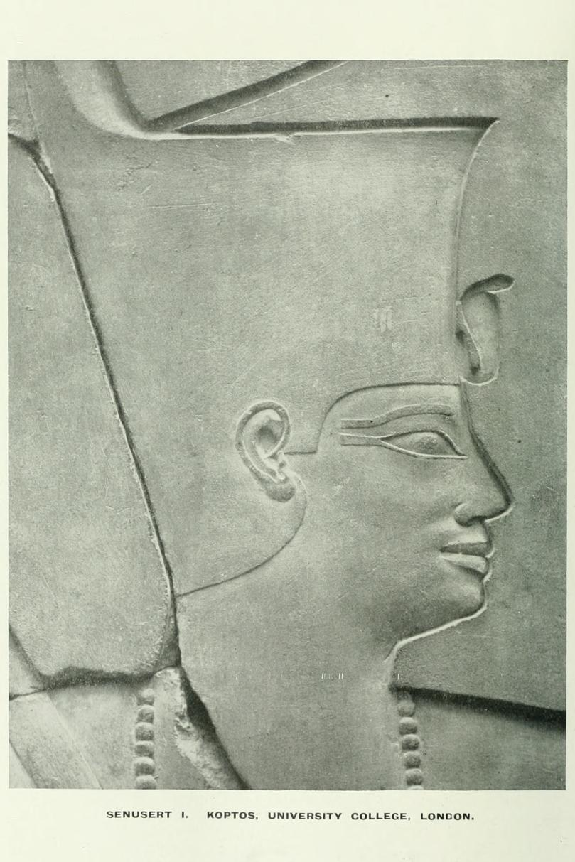 Closeup of a relief of pharaoh Senusret I as King of Lower Egypt. Limestone, from Coptos (Qift), 12th dynasty, Middle Kingdom, and now at the Petrie Museum, London (UC14786).